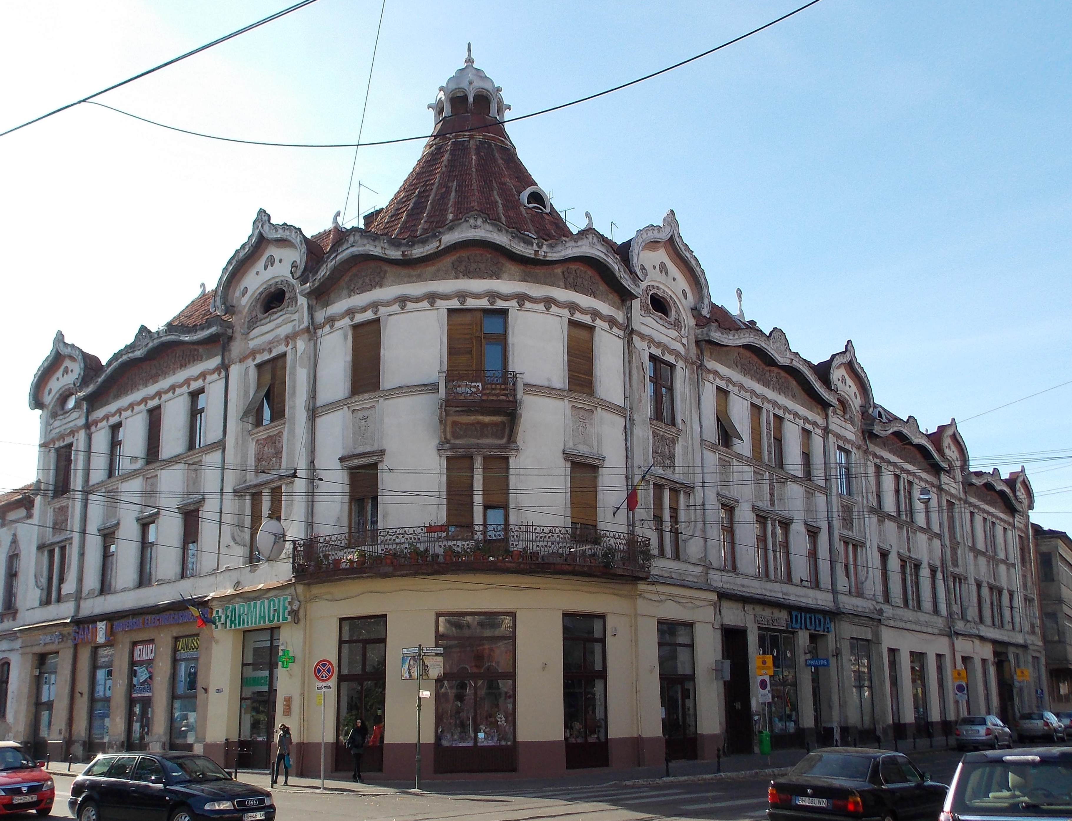 Fuchsl Palace - Oradea